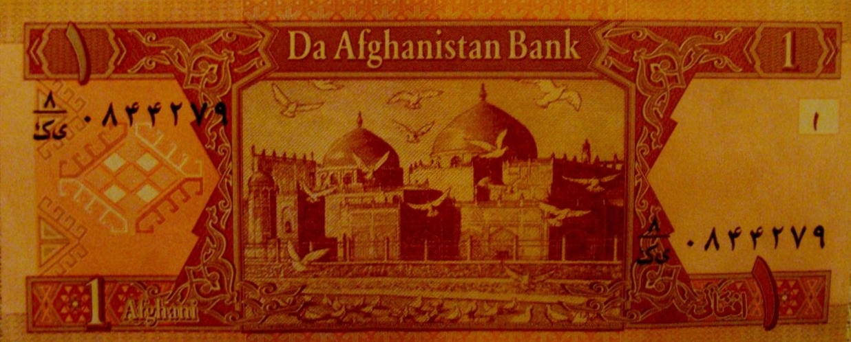 1 Afghan afghani